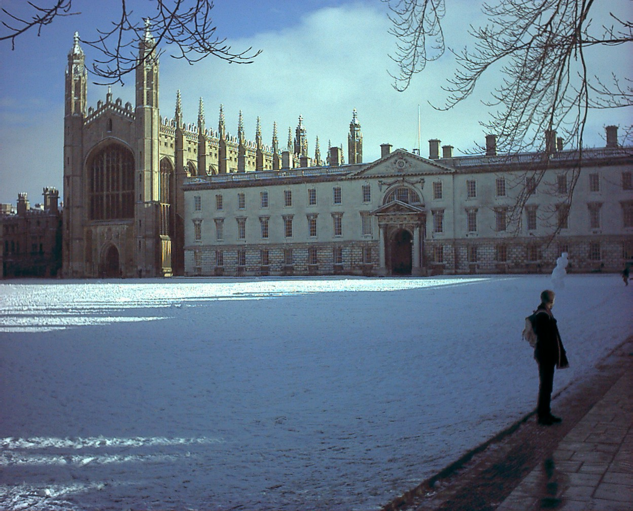 King's College, Cambridge, UK, under the snow